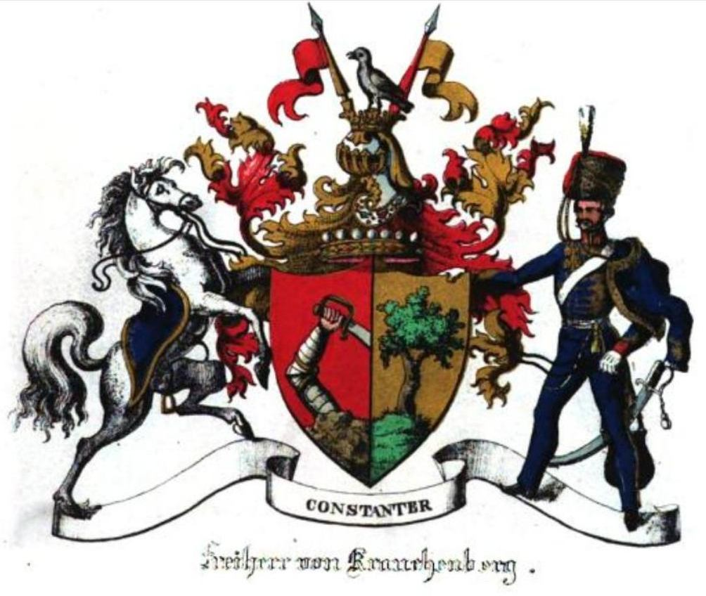 Georg Freiherr von Krauchenberg, 1832